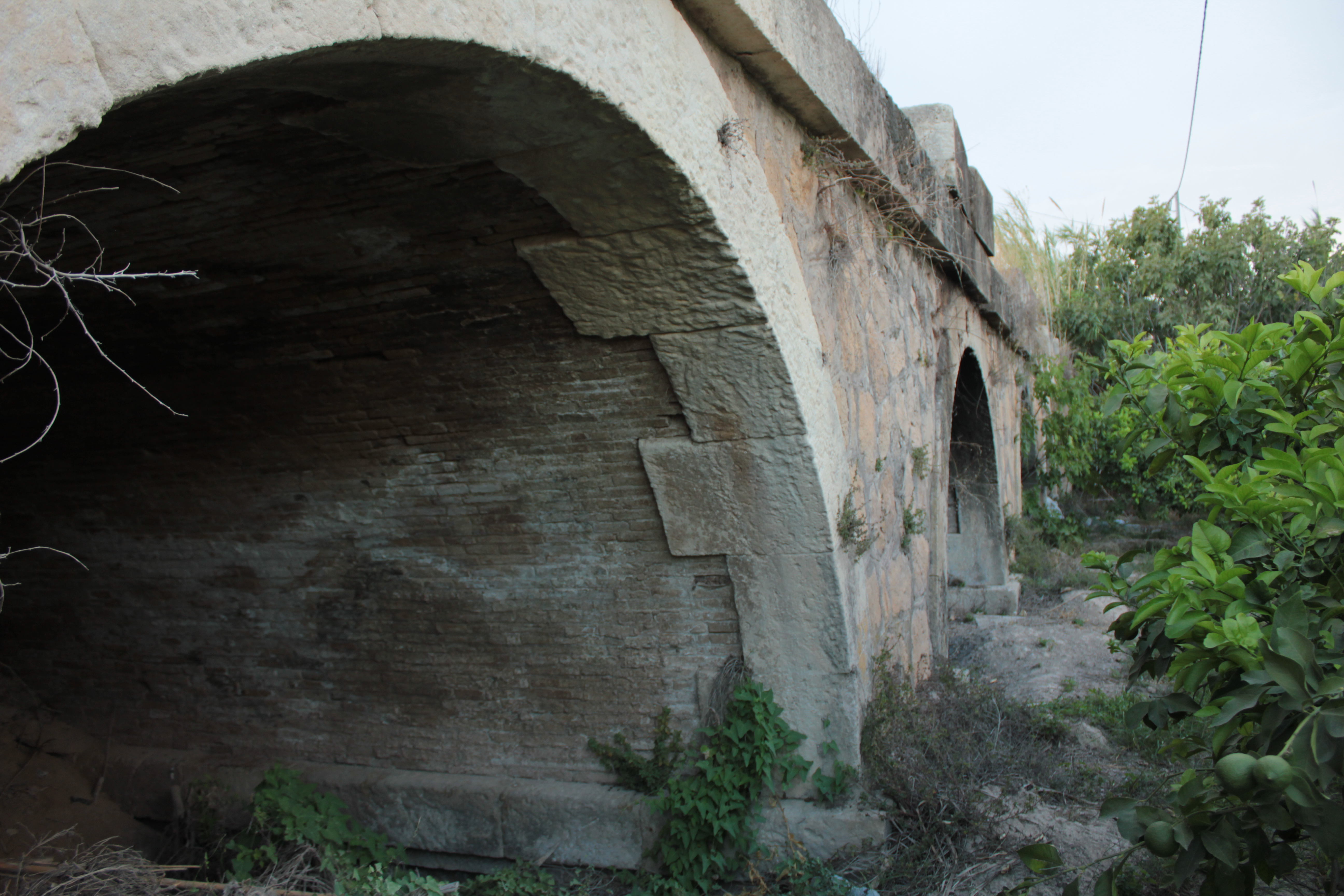 Detail of one of the stone arches of "Puente de la Polvora" bridge in Murcia, Spain